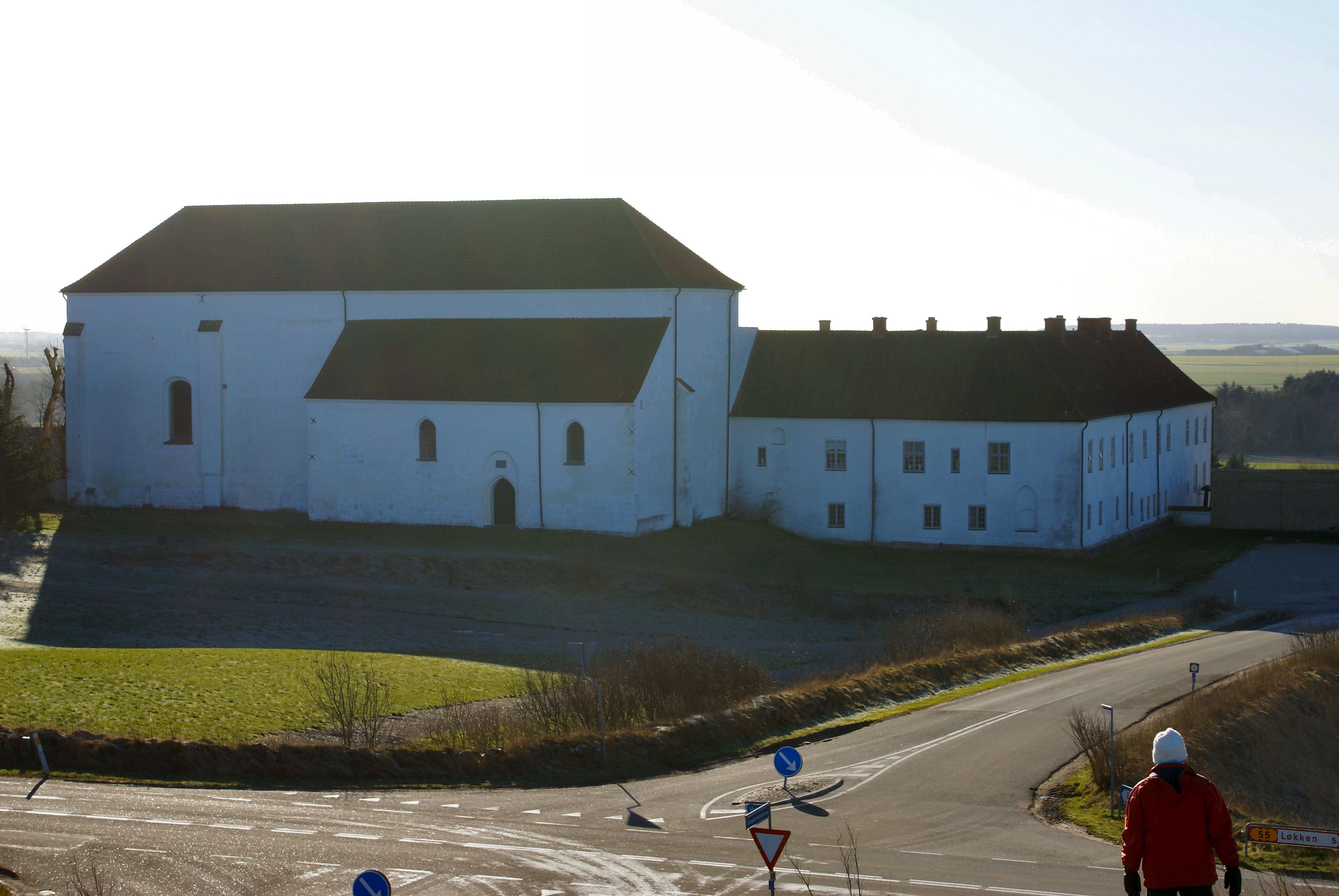 Børglum Kloster, Denmark, Manor house and church, former convent